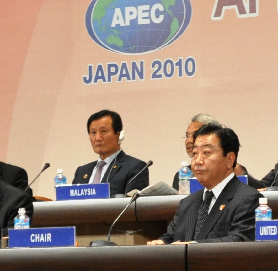 Members of the APEC Japan 2010 Finance Ministers Meeting pose for the photograph in Kyōto City, Kyōto Prefecture on November 6, 2010.